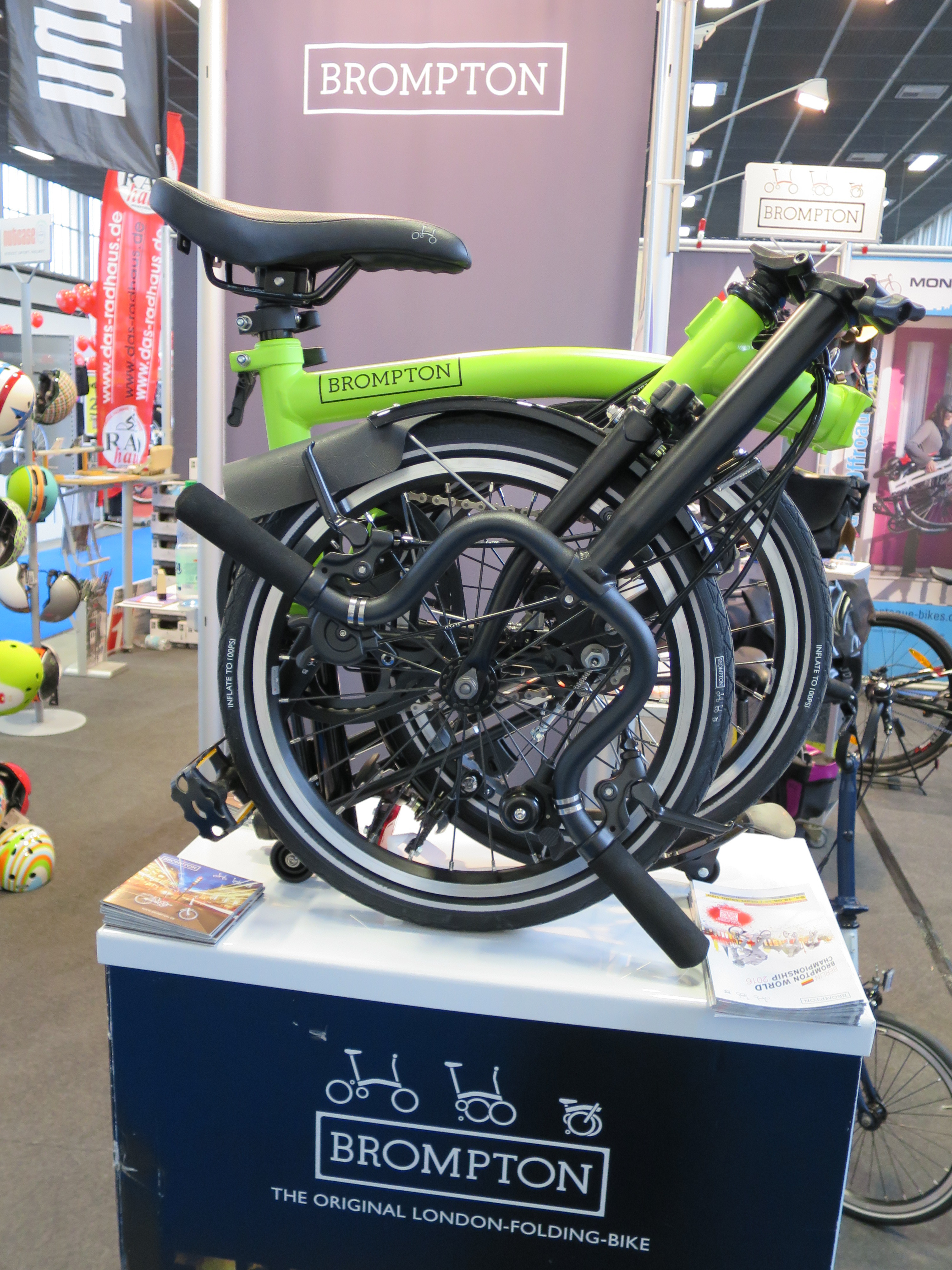 ITB Berlin 2016 The making of this document was supported by Wikimedia Polska Association, within Wikigrant no. WG 2016-9. English | polski | +/−